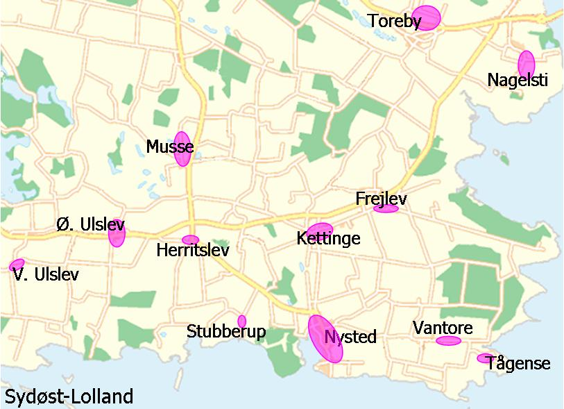 kort over Nysted omegn (map of the area around Nysted)